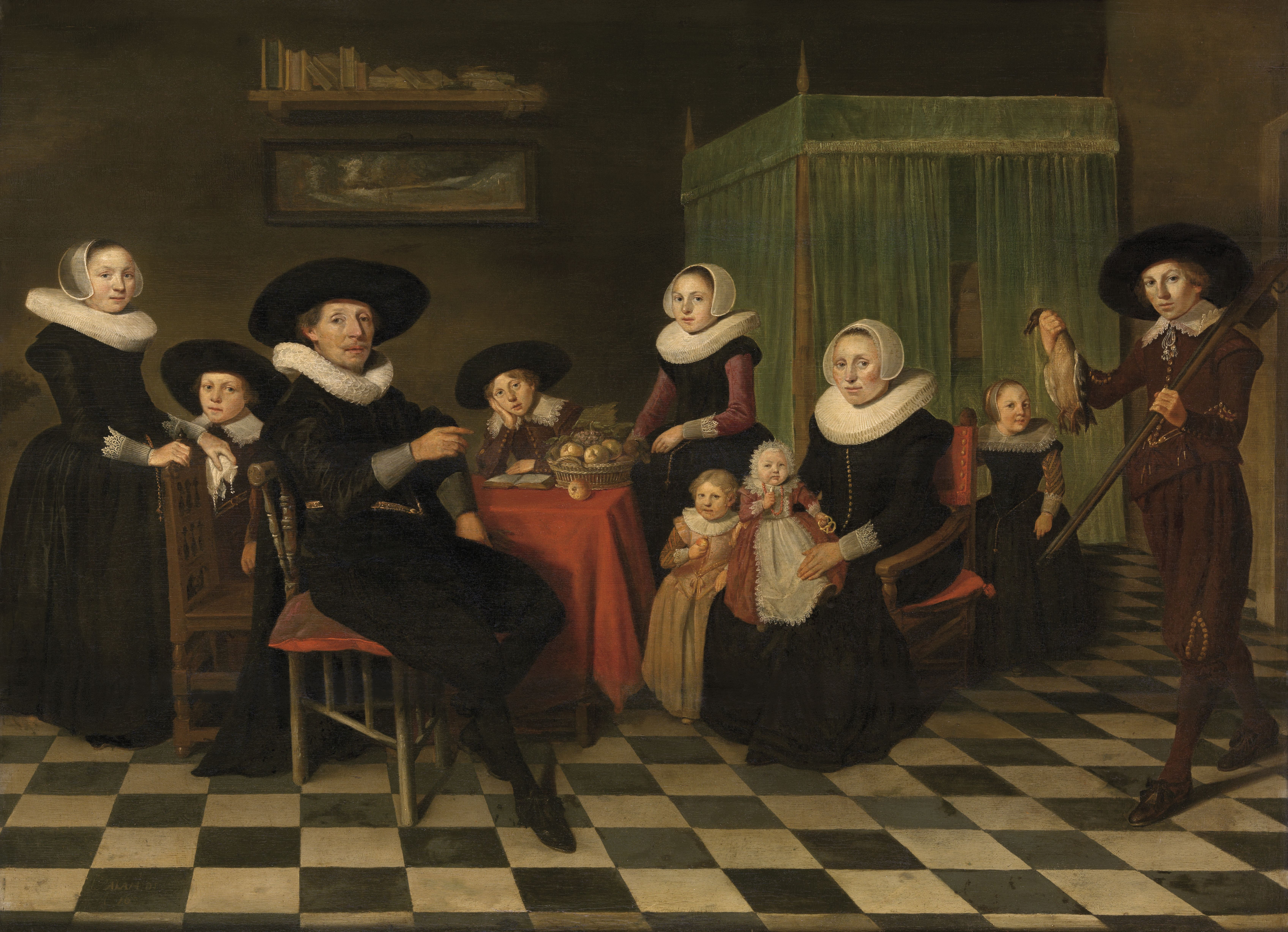 Family Portrait